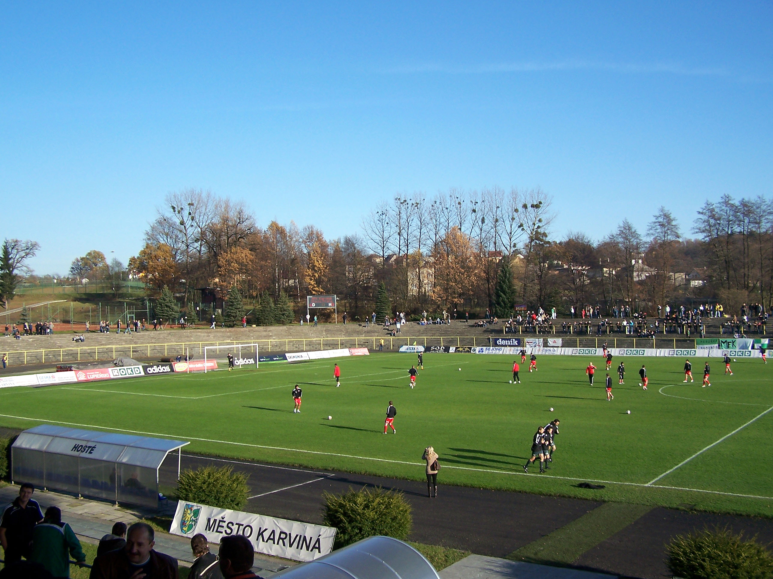 Slavia players practicing before the MFK Karviná - SK Slavia Praha ČMFS Cup match in Karviná